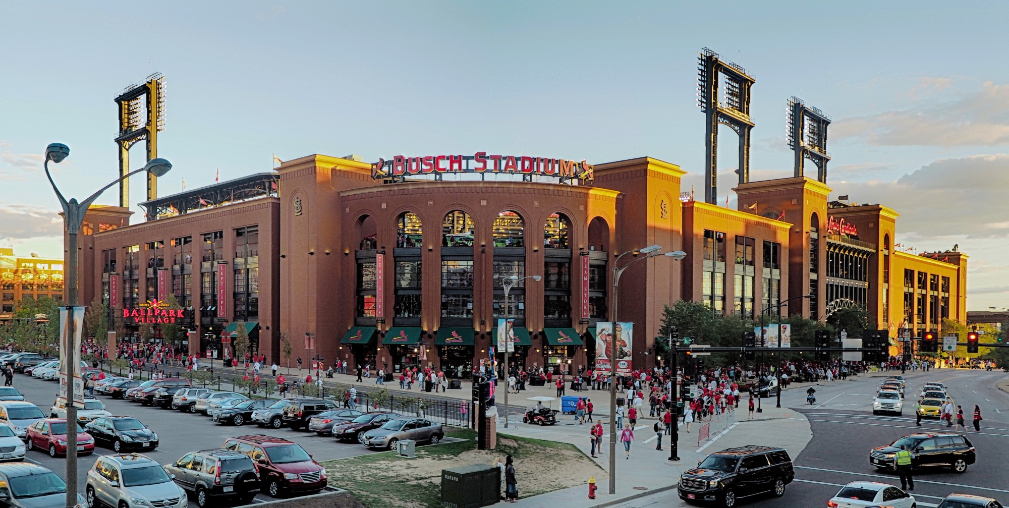 Busch Stadium at 8th and Clark in downtown St. Louis